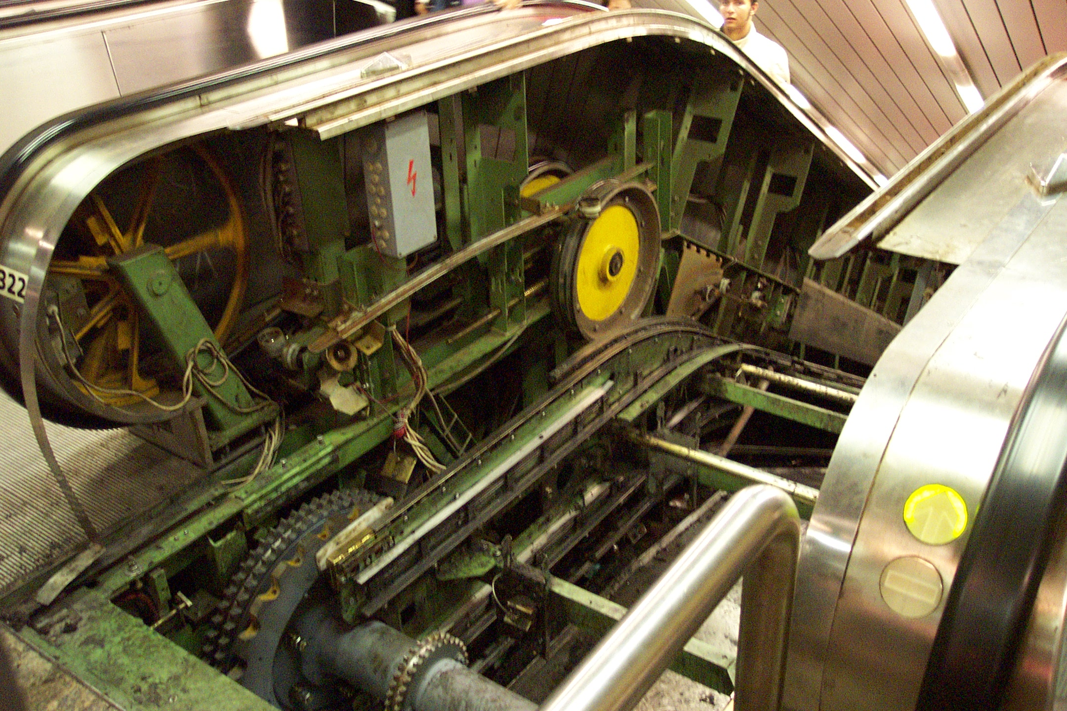 Escalator replacement in I.P.Pavlova metro station, Praguehelp